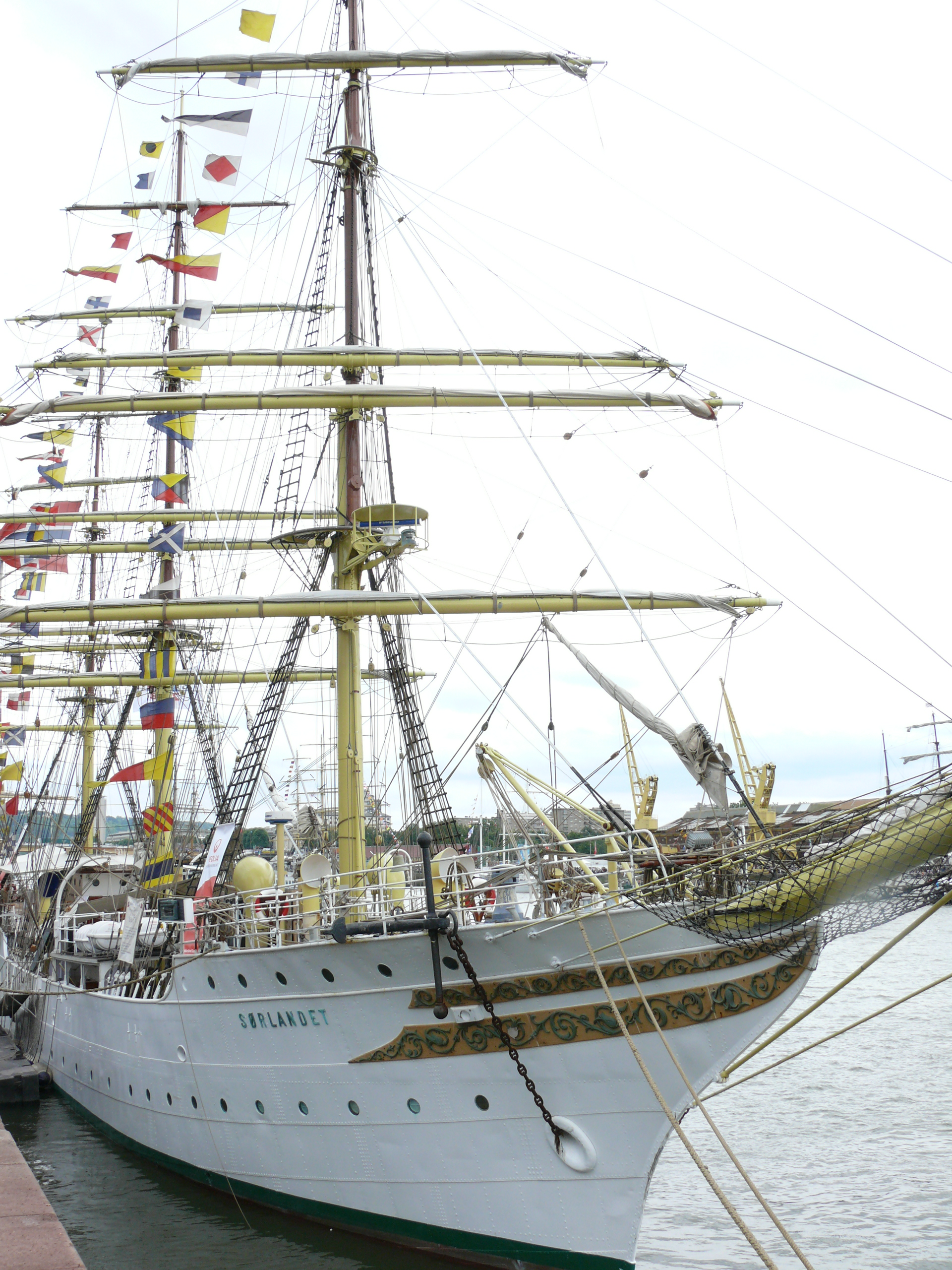 Sørlandet in Rouen (Armada Rouen 2008)